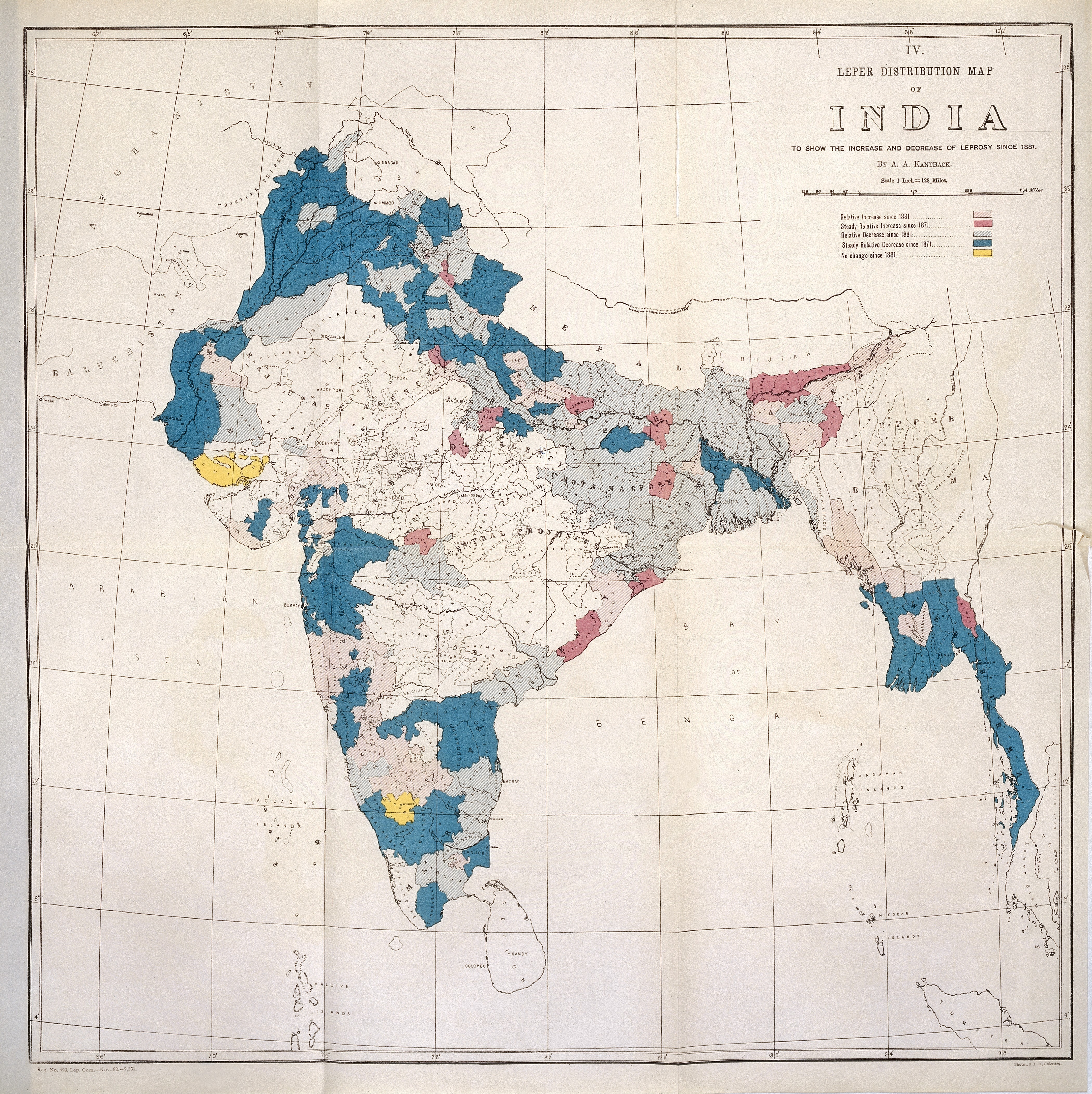 Leper distribution map of India to show the increase and decrease of leprosy since 1881Map 19th Century